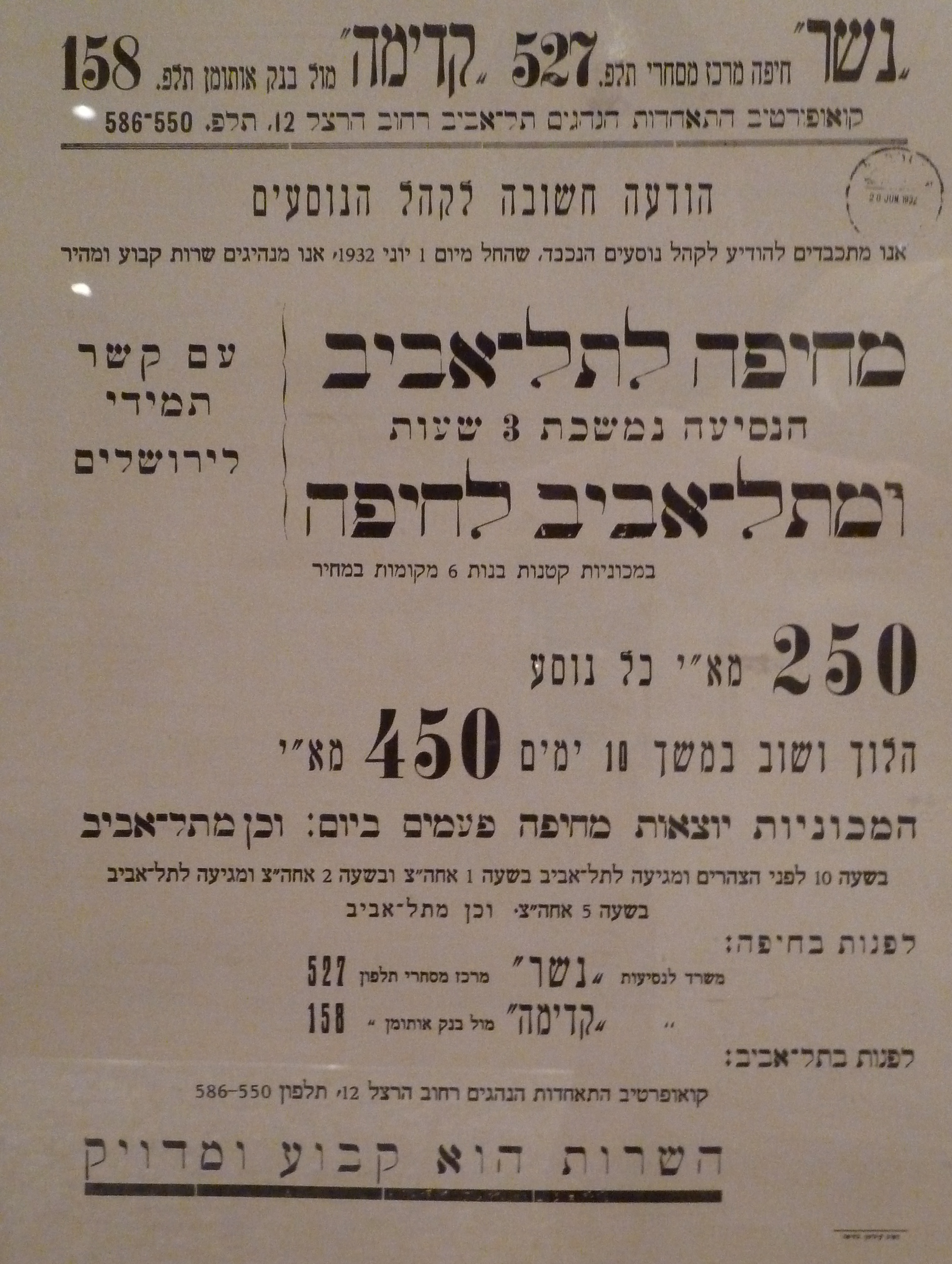 Tel Aviv historical ads from the 1920s and the 1930s. An exhibition at the Shalom Meir Tower